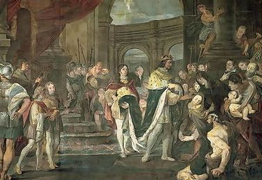 Francis I touching the scrofulous, as depicted in a fresco at Palazzo d'Accursio